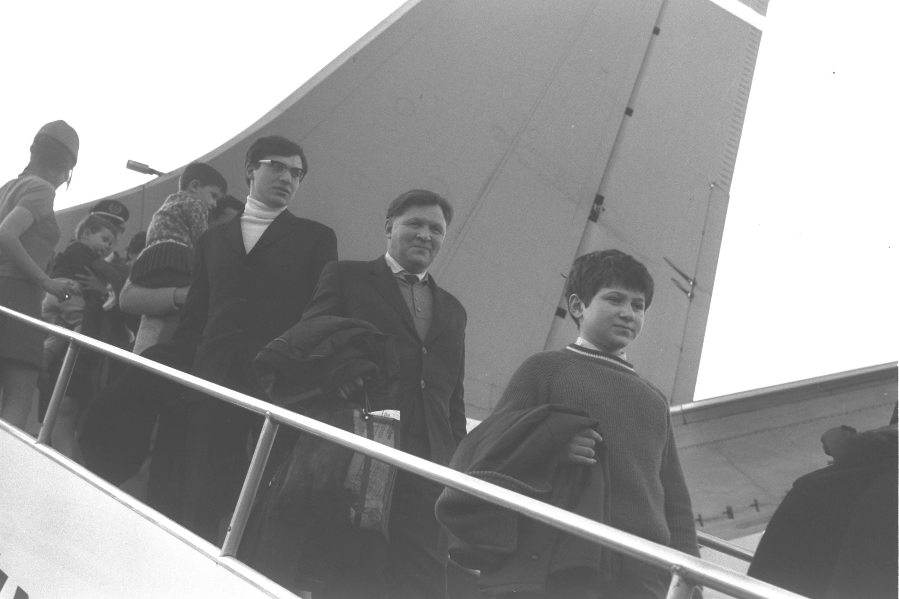 New immigrants from the the Soviet Block leaving an El Al chartered plane from Vienna at Lod Airport. עולים חדשים מברית המועצות Photo: Moshe Milner (1946–) Alternative names Miylner, Moše; Milner, Mosheh; Moshé Milner; Milner, M.; Mîlner, Moše; Miylner, MošehDescriptionIsraeli photographerצלם ישראליDate of birth 1946 Location of birth Germany Authority control : Q28750411 VIAF: 100999744 ISNI: 0000 0001 0804 0507 LCCN: n82072104 GND: 115699732 BNF: 15548788n WorldCat creator QS:P170,Q28750411 , 03/25/1971